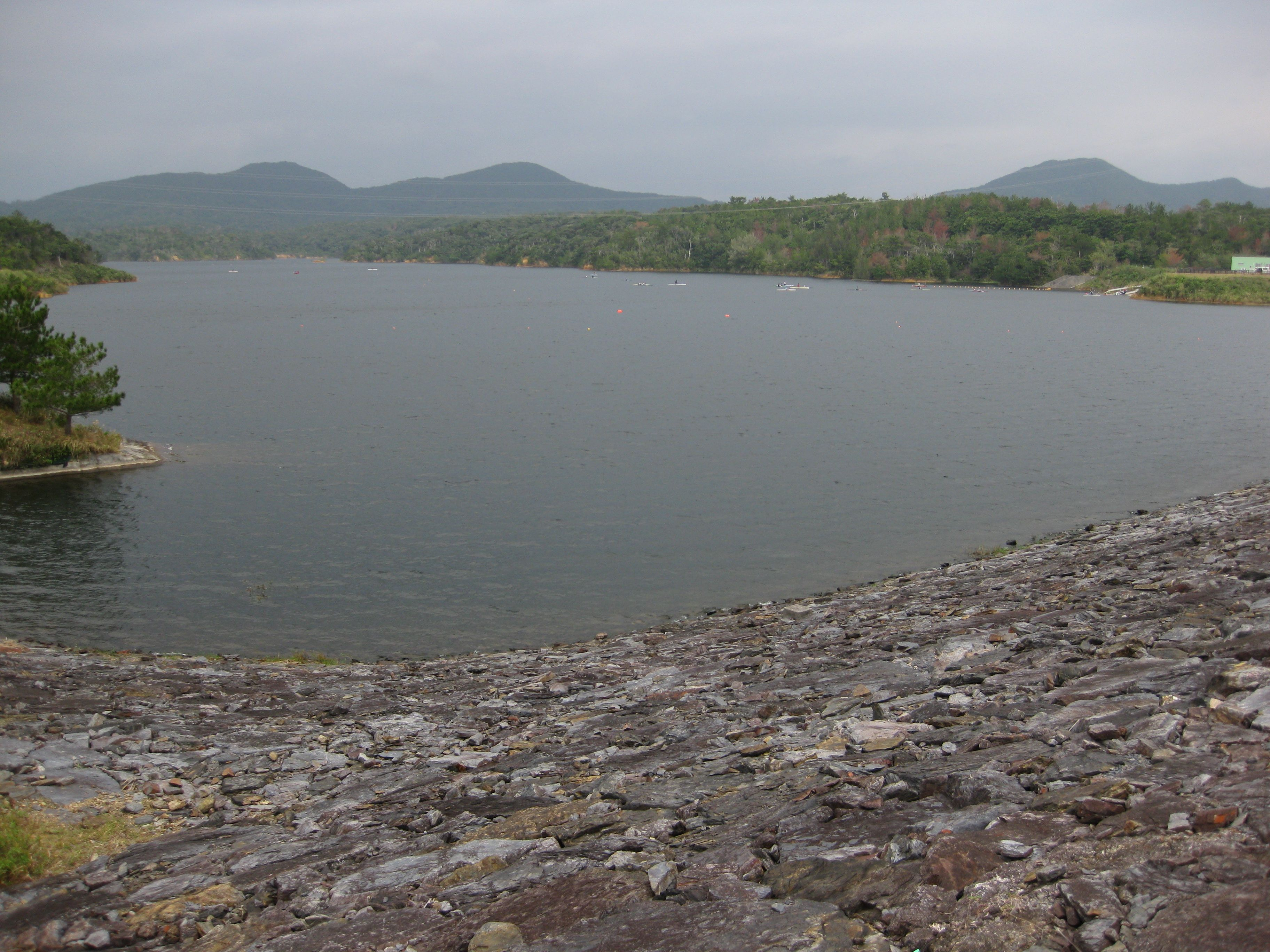 Kanna Reservoir in Okinawa, Japan